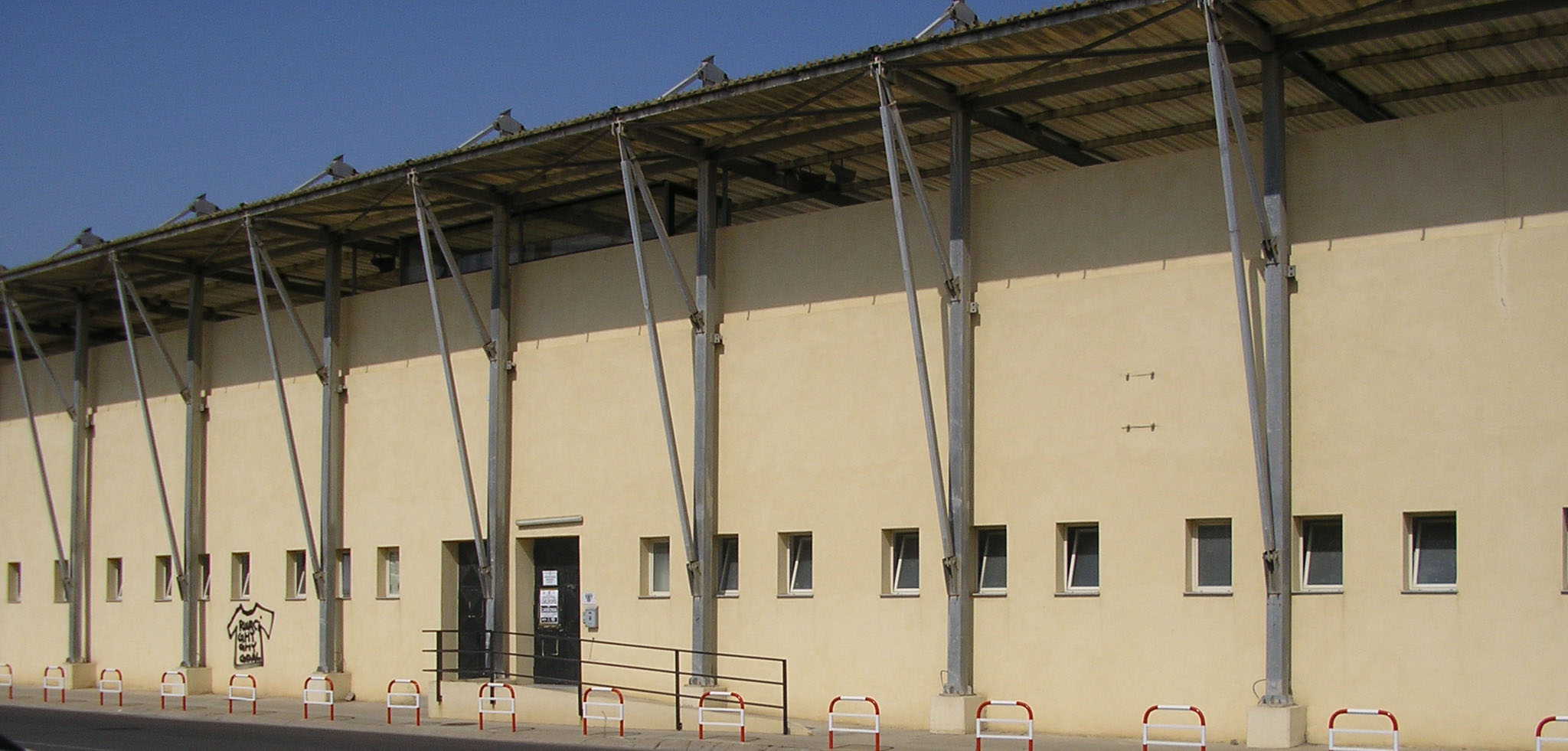 External view of the Comunale stadium in Carbonia, Sardinia, Italy